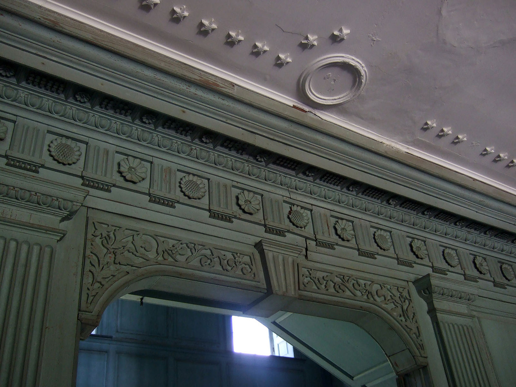 Interior of Drayton Hall detail.